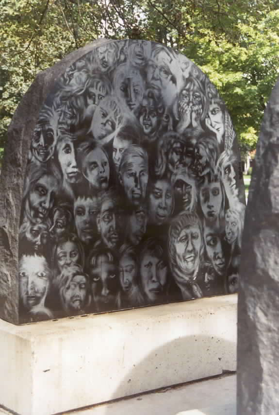 photo by Einar Einarsson Kvaran Victoria Park (London), in Ontario, Canada